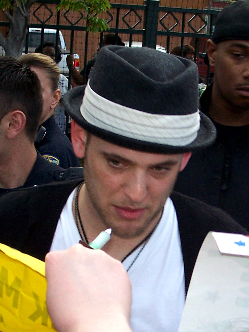 Matt Giraud in his hometown of Kalamazoo, Michigan.